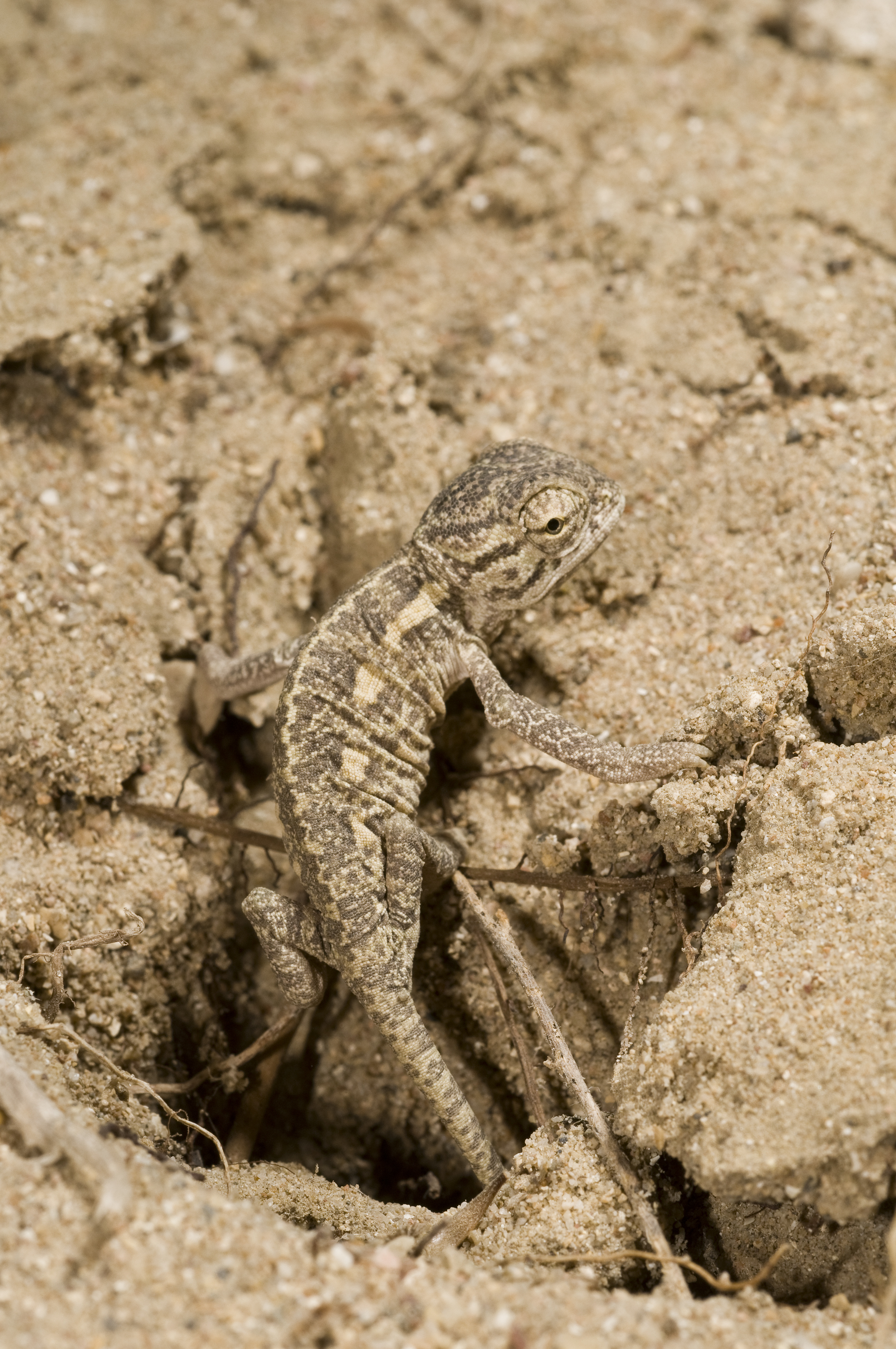 juvenile Chamaeleo africanus climbs out of the nest